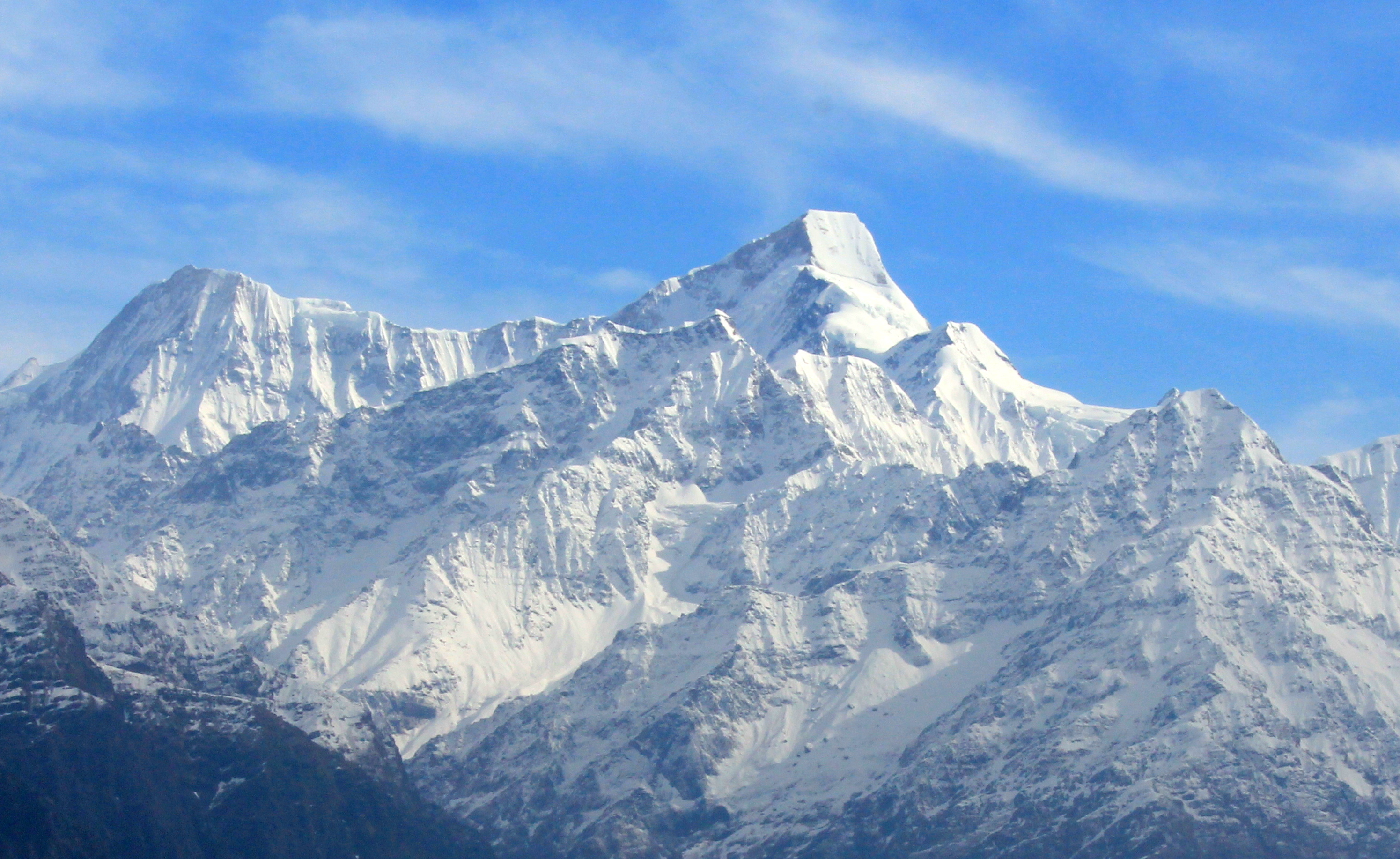 Nanda Kot and Changuch